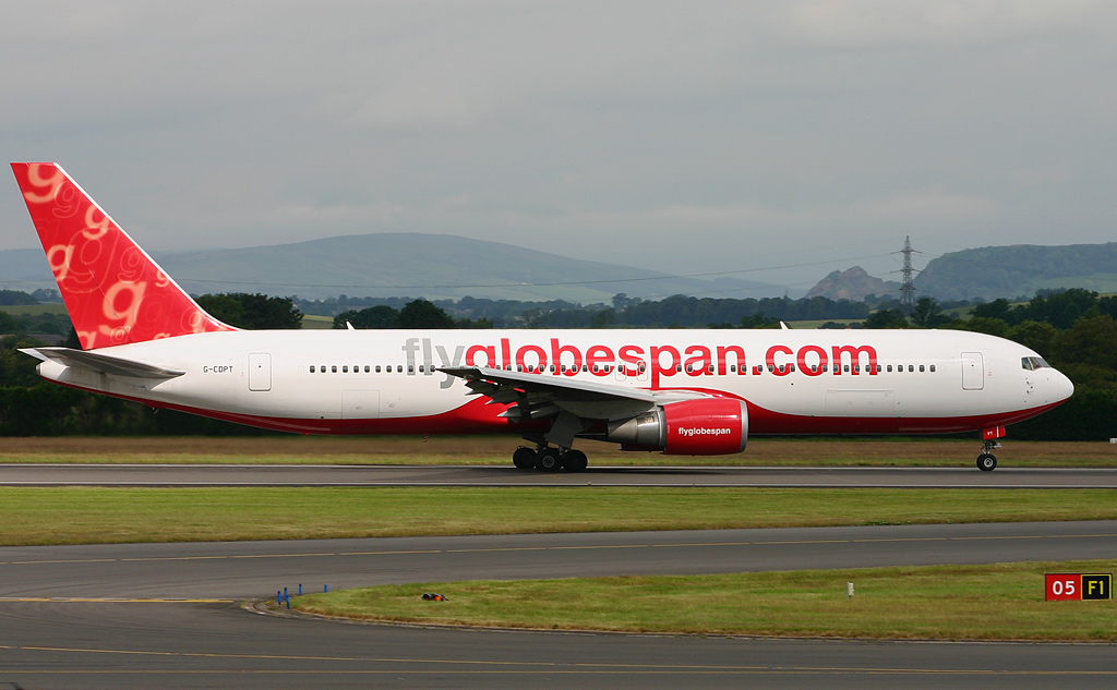 This image was taken by Martin J.Galloway. Donated from the British Photo Encyclopedia Dotonegroup : talk. Flyglobespan Boeing 767 version 300, registration number G-CDPT, heading out to Runway 05 Glasgow International Airport, Scotland.